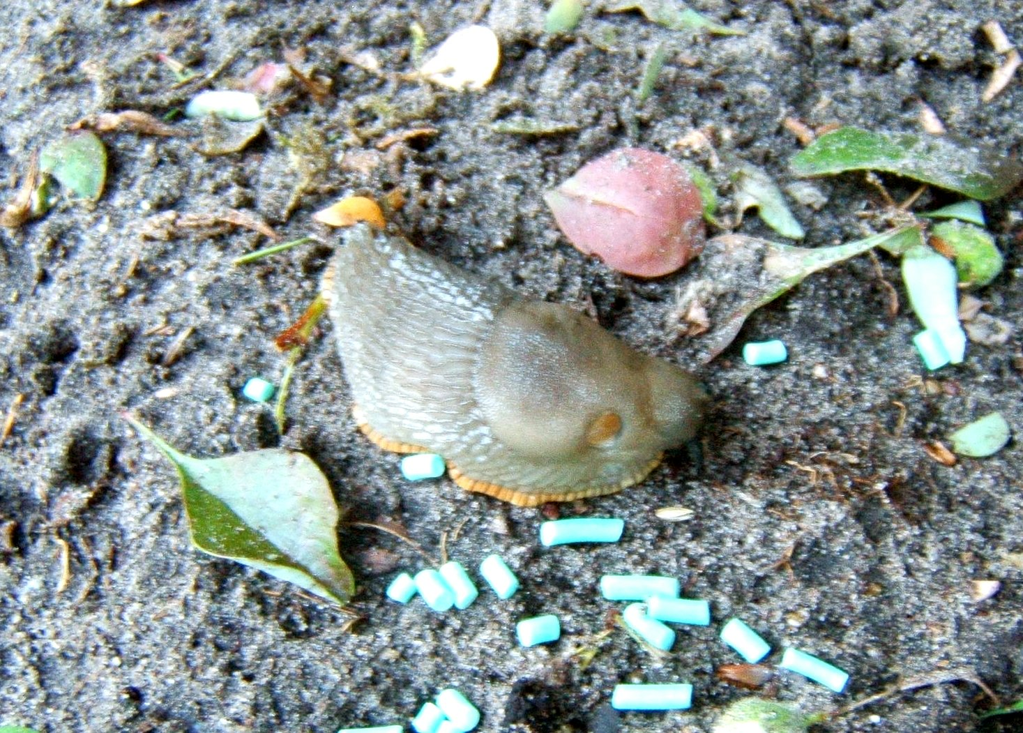 Photo of Arion vulgaris. Categorie:Afbeelding dier